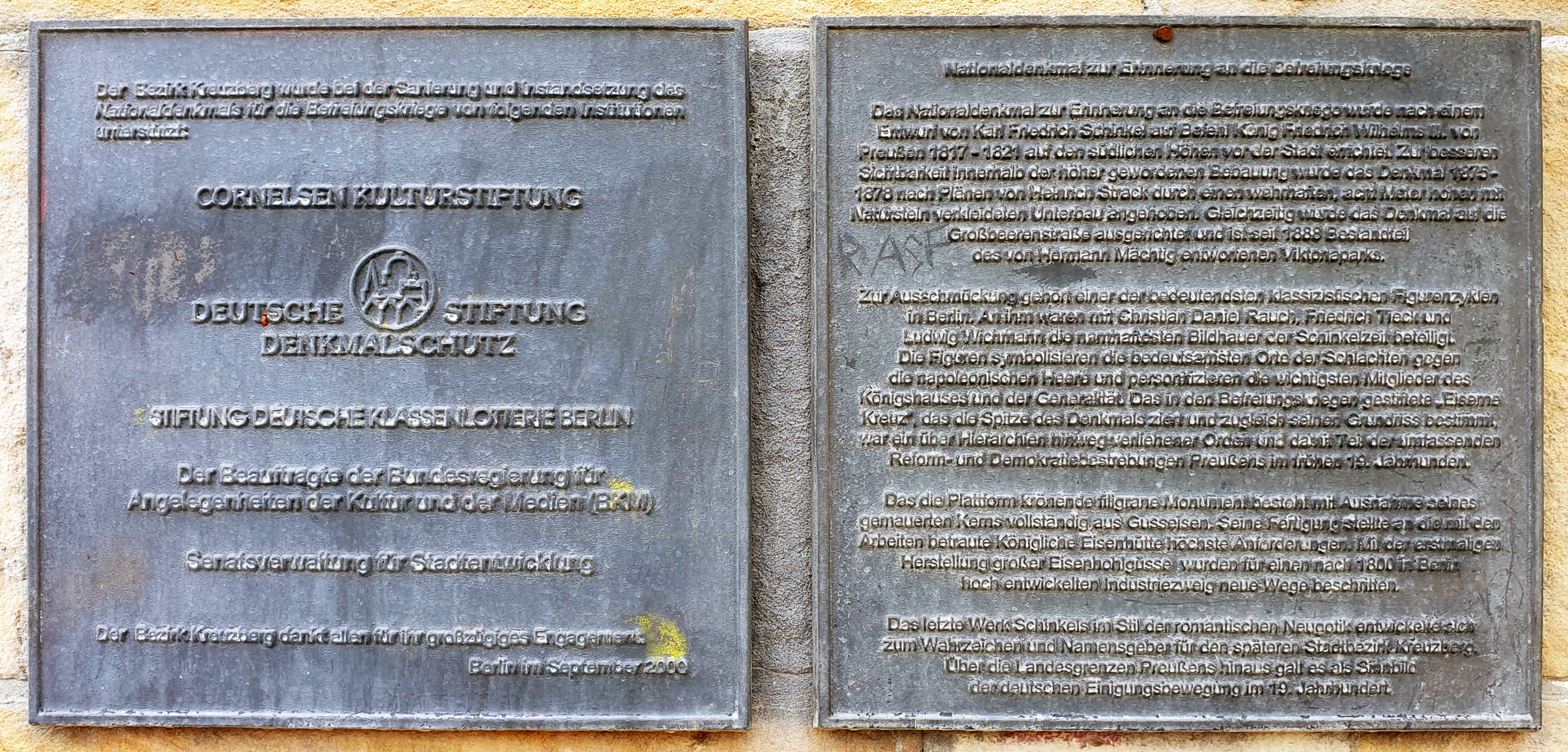 Memorial plaque, Nationaldenkmal für die Befreiungskriege, Viktoriapark, Berlin-Kreuzberg, Deutschland